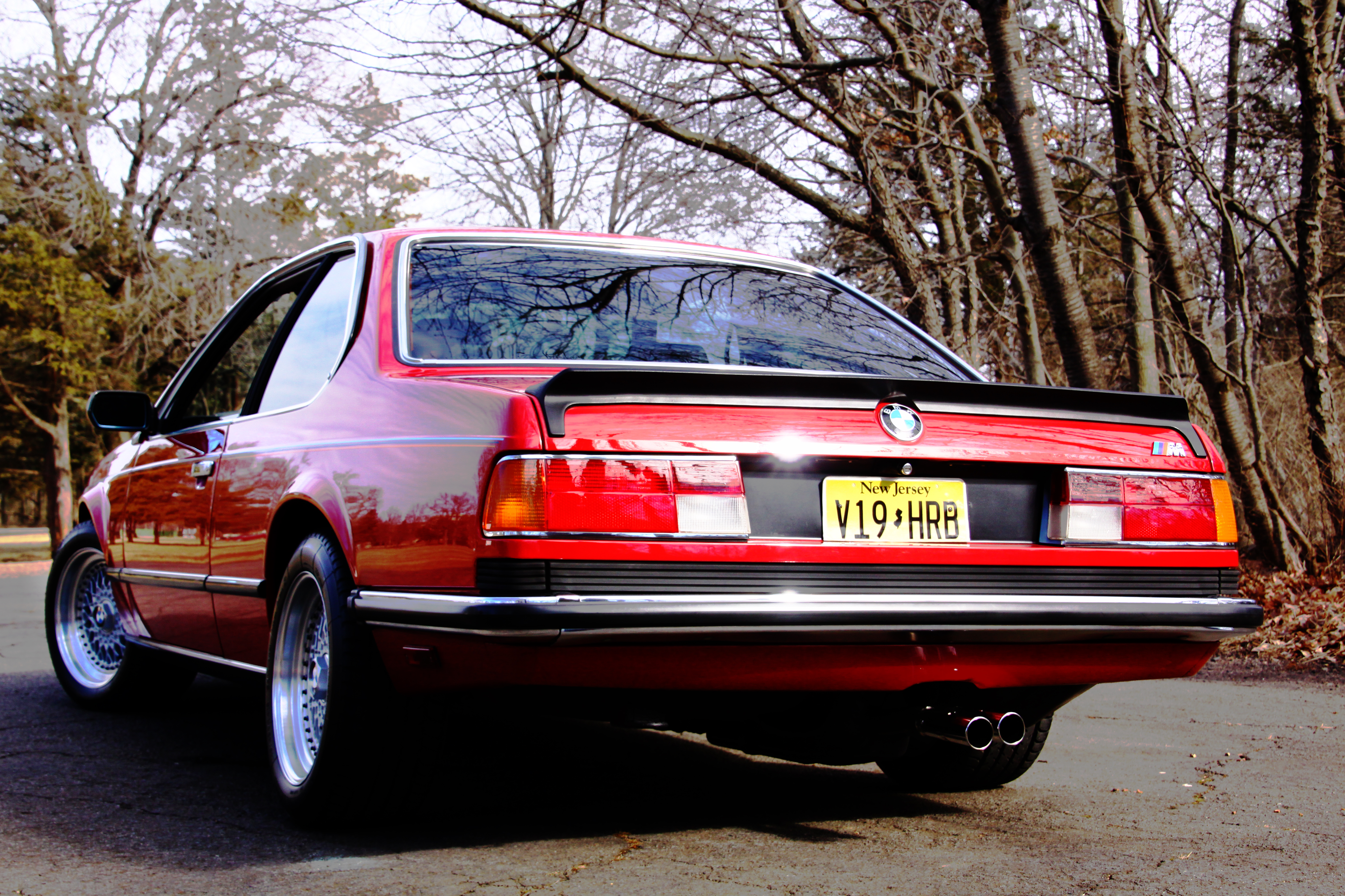 1985 BMW M635CSi. Stock BBS RS007 wheels and Michelin TRX tires.